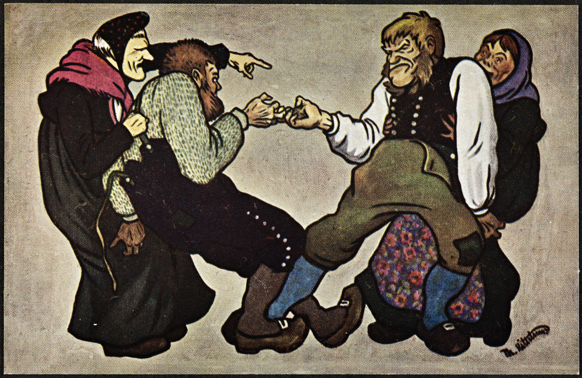 Tittel / Title: Th. Kittelsen: Dumme menn og troll til kjerringer Motiv / Motif: Postkort. Dato / Date: ukjent / unknown Kunstner / Artist: Theodor Kittelsen (1857-1914) Utgiver / Publisher: Mittet & Co. (nr 232) Eier / Owner Institution: Nasjonalbiblioteket / National Library of Norway Lenke / Link: Bildesignatur / Image Number: blds_04841